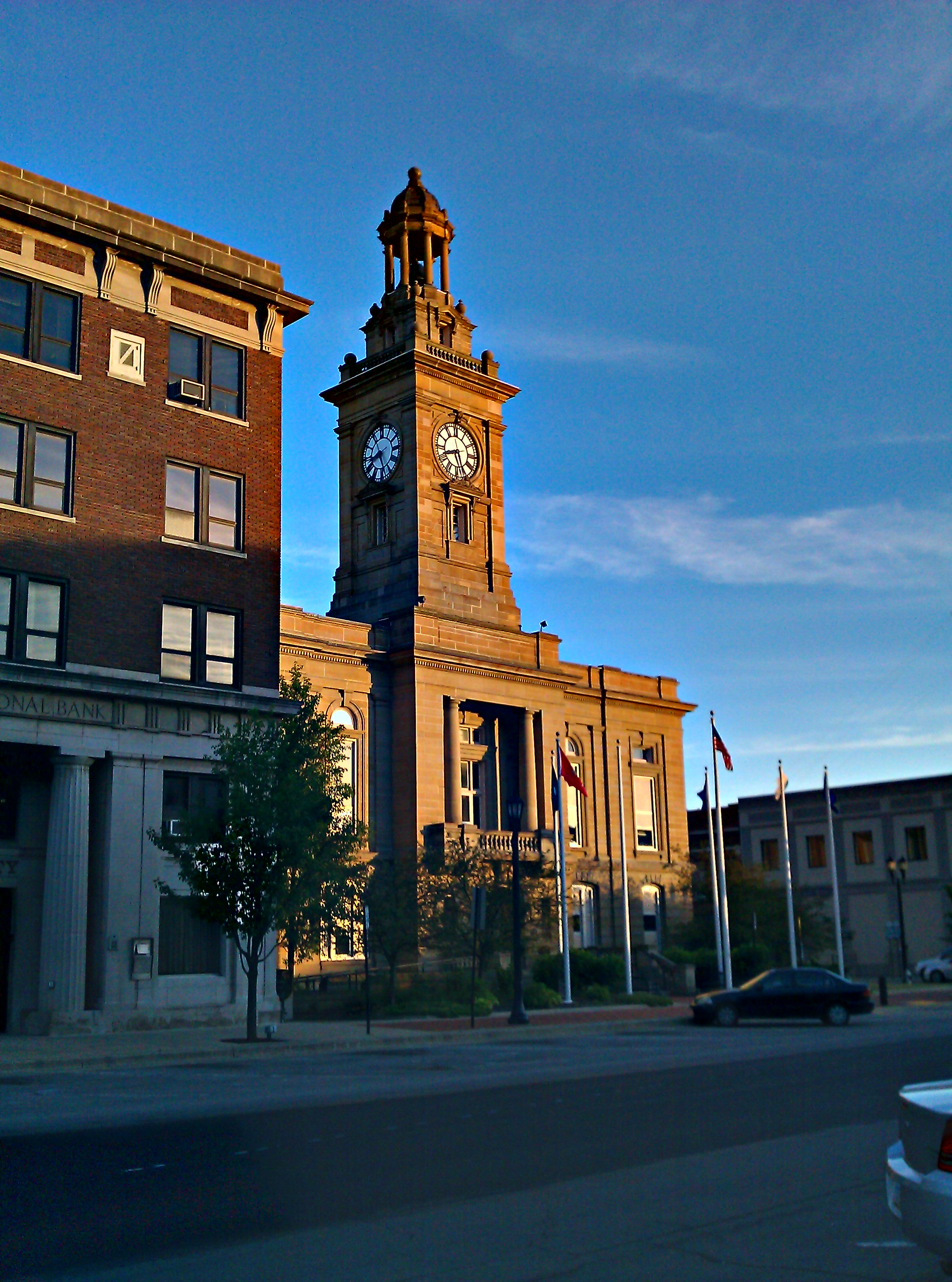 Huron County Courthouse and Jail, E. Main St. and Benedict Ave. Norwalk